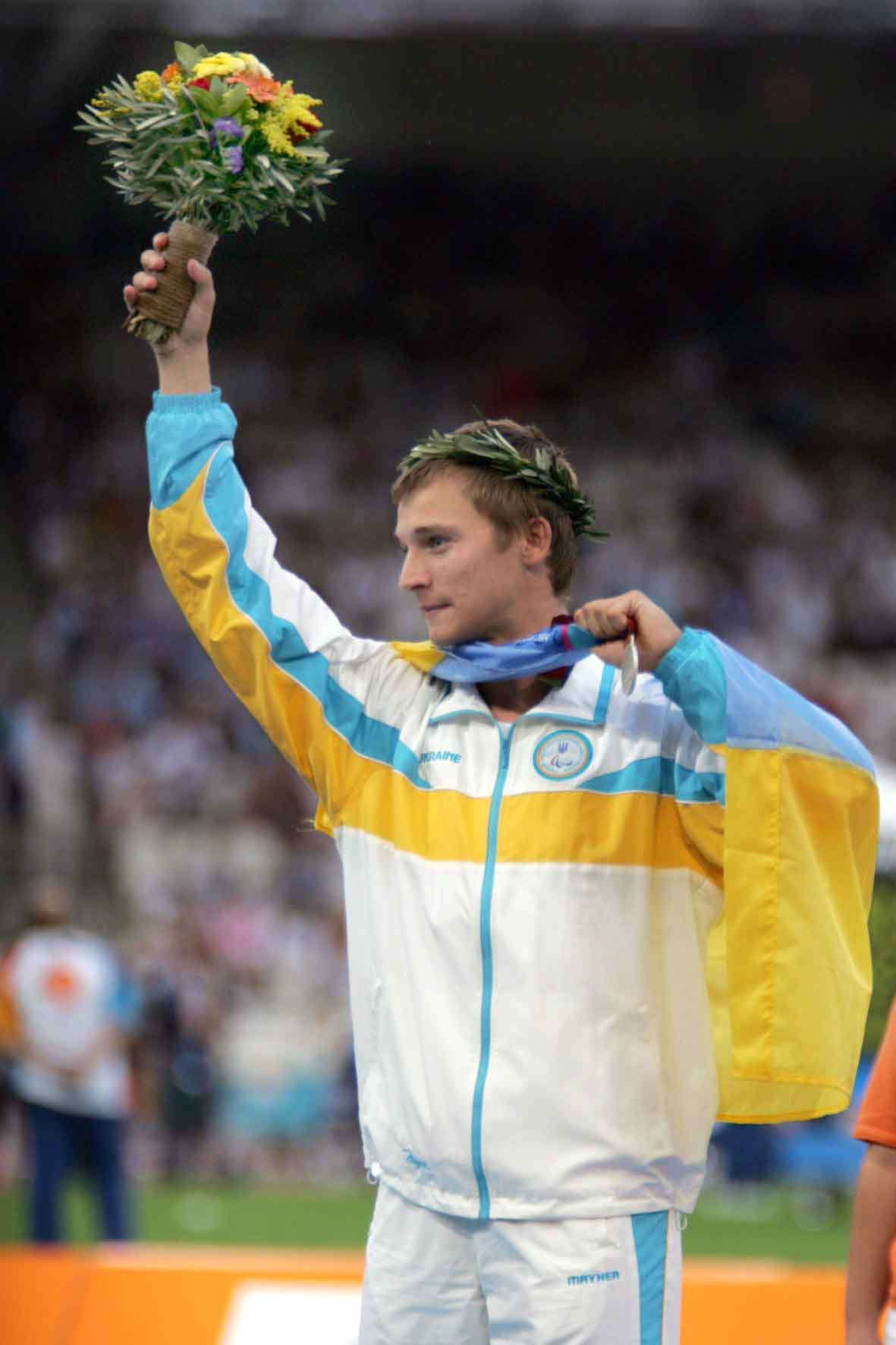 Zhyltsov Athens